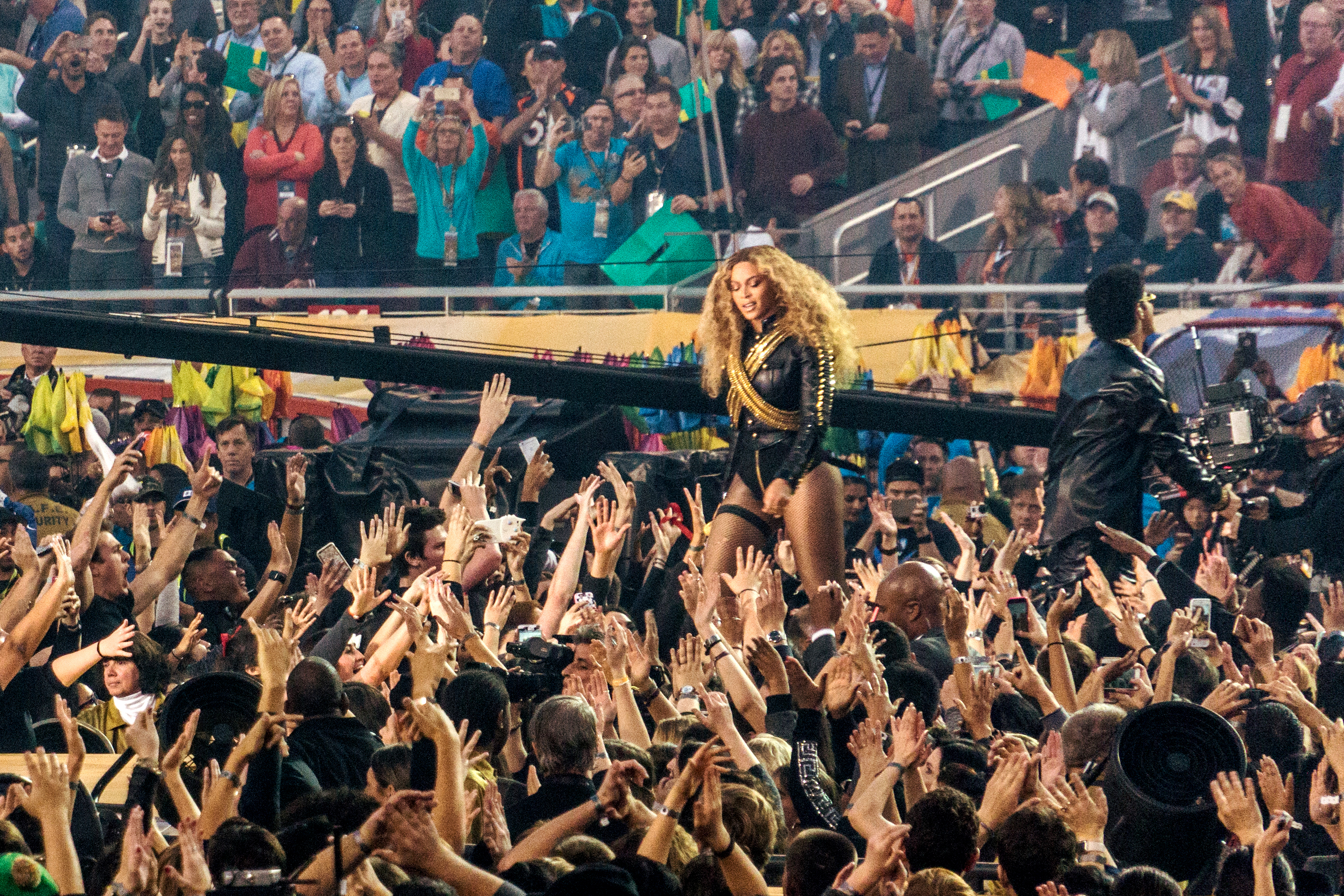 Beyoncé performs at the Super Bowl 50 halftime show, as a special guest for Coldplay, who headlined.